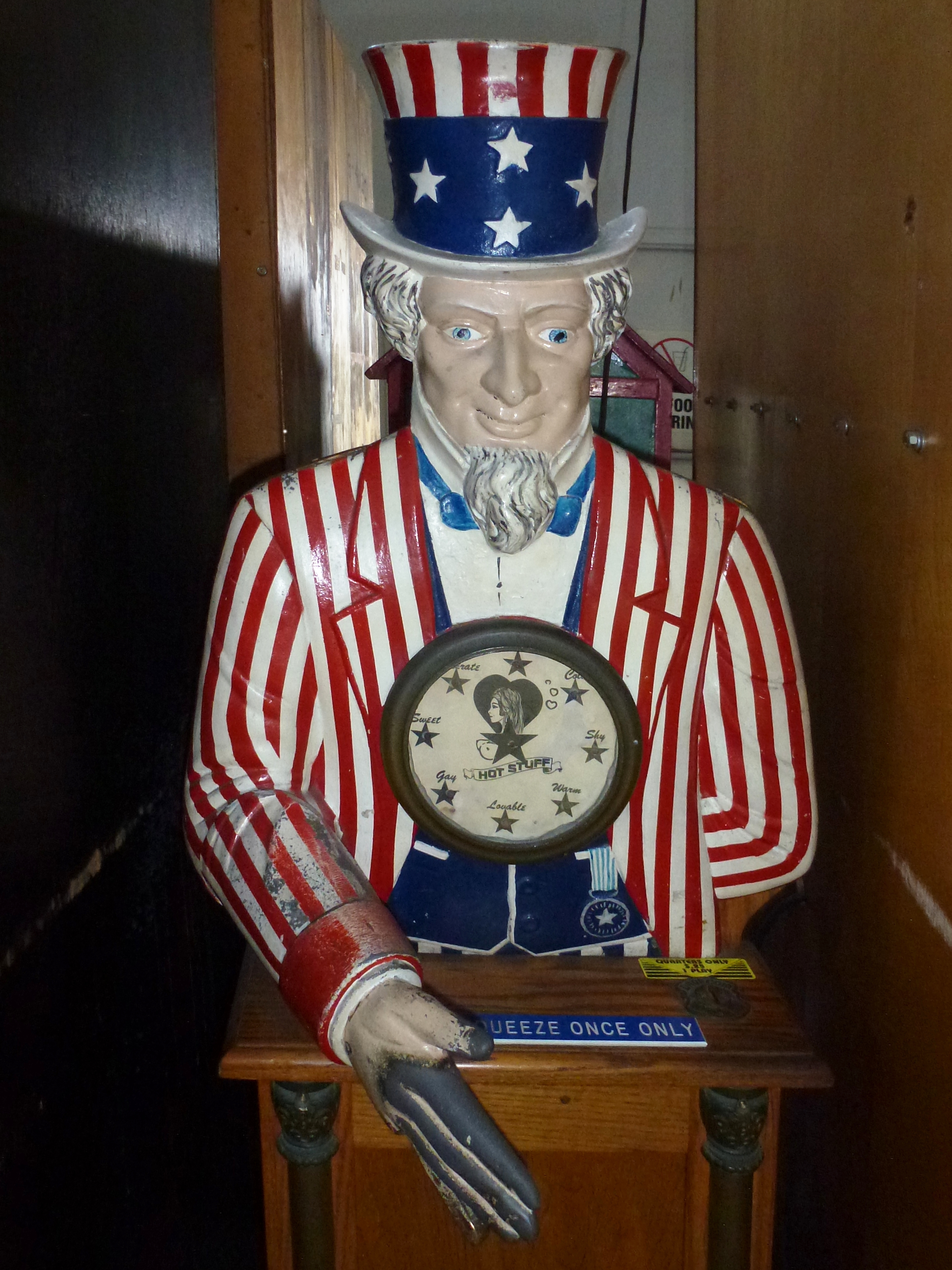 "Uncle Sam carnival game....Hot Stuff meter" in Musée Mécanique.- Pier 45, Fishermen's Wharf, foot of Taylor Street, Fisherman's Wharf (San Francisco) San Francisco, Californie, USA.